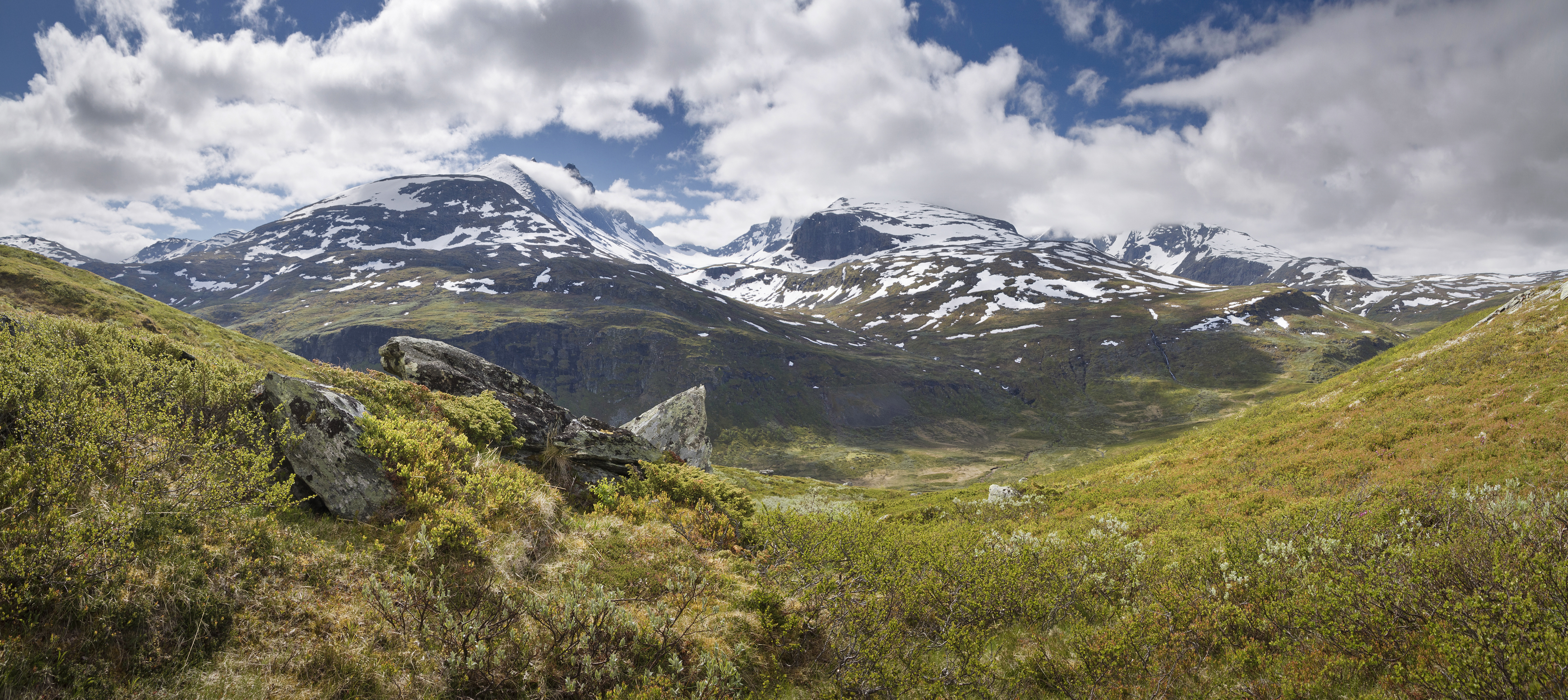 A view towards Helgedalen and Hurrungane mountains in the background in 2013 June. The picture has been taken from the north towards south, somewhat near to Oscarshaug in Luster municipality, Sogn og Fjordane, Norway.